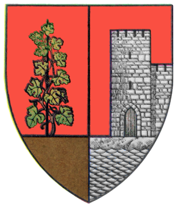 Interwar coat of arms of Cetatea Albă County, Kingdom of Romania.